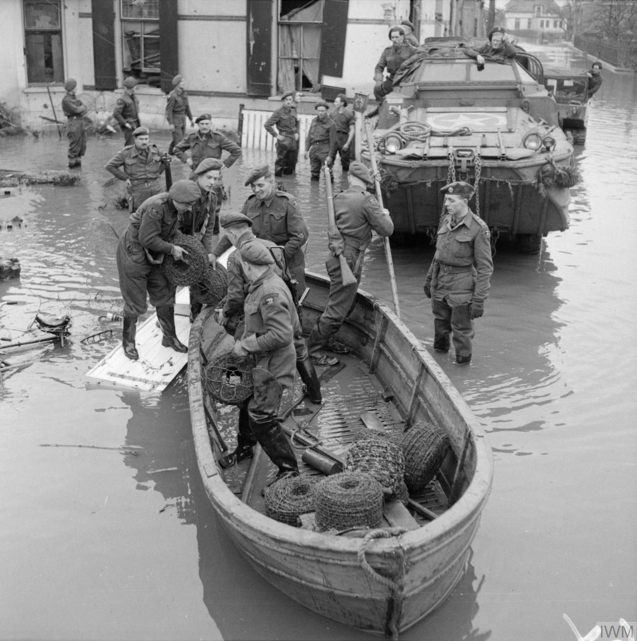 The British Army in North-west Europe 1944-45 Troops from the York and Lancaster Regiment unloading coils of barbed wire from a boat in the flooded village of Zetten, 2 March 1945.